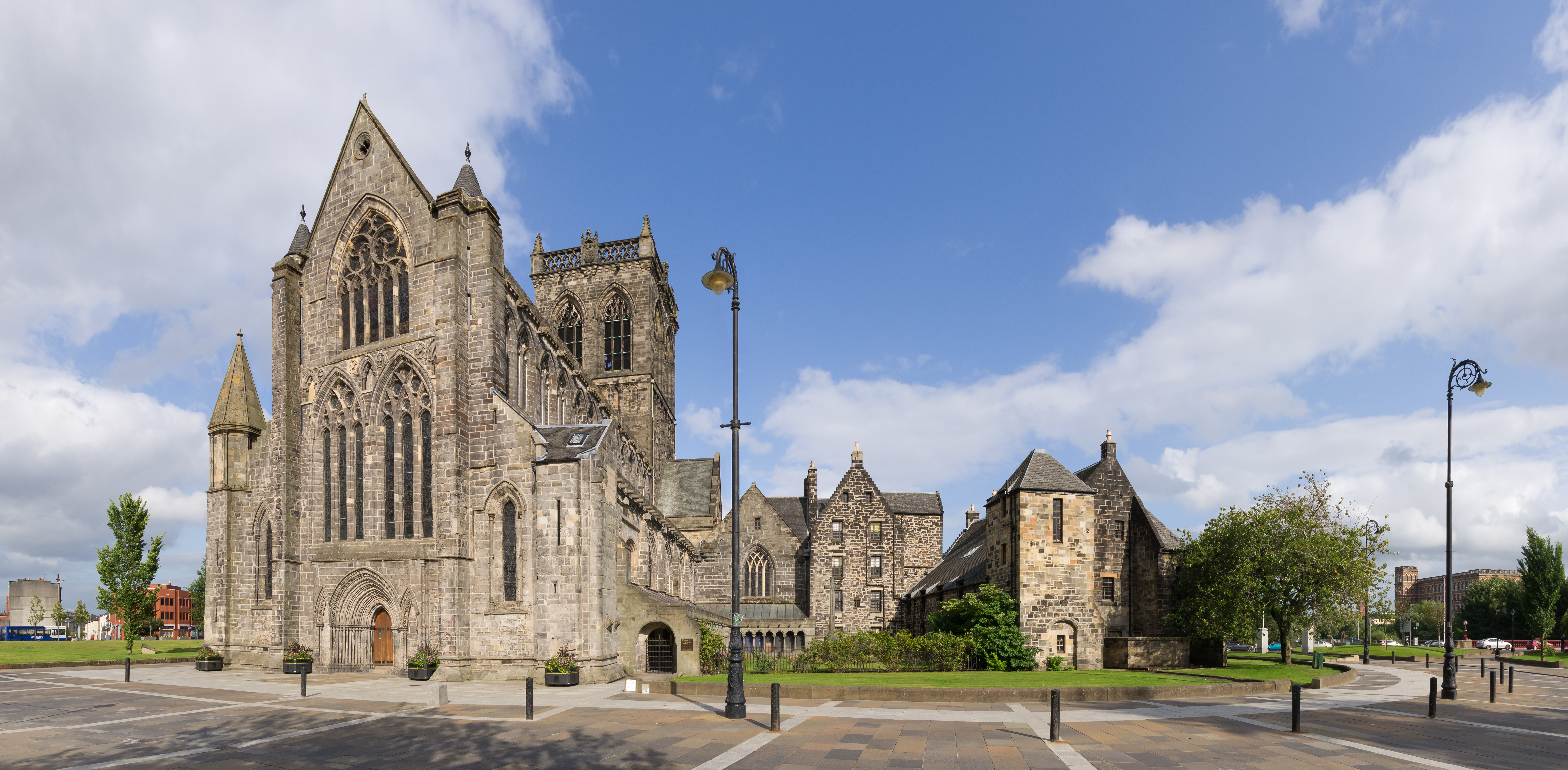 Paisley Abbey from the west on Abbey Close. On the left is Paisley Abbey. In he middle right is the Place of Paisley, which is the remains of the monastery. The red building in the distant right is the Anchor Mills. There are thirteen gargoyles along one side of the roof. In 1991, twelve of them were replaced as they had weathered away. The replacements include a set of see-no-evil, speak-no-evil and hear-no-evil characters, as well as a monster similar to the one from the film Alien. Photographer's notes: I took this photograph with a Sony A33 camera and Tamron 17-50mm lens at 17mm, f8, iso 100, 1/250s. I made a series of 17 landscape frames in 3 rows and stitched them together with Hugin. The original image had a 180 degree angle of view with Panini projection -- this is a cropped version. I fixed some stitching errors by hand-blending some frames with Photoshop. I then used Lightroom to adjust overall levels.